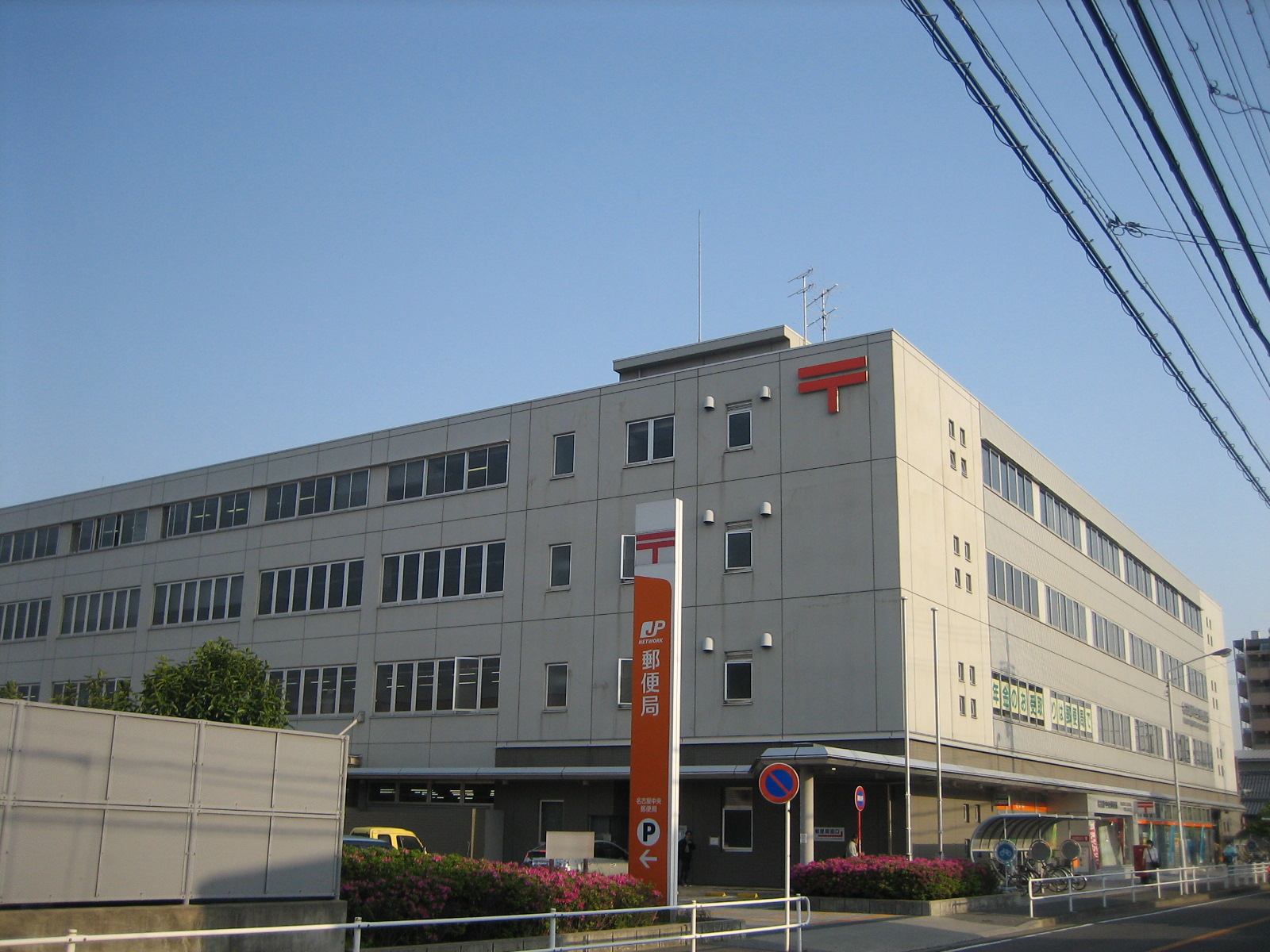 Nagoya central post office in Aichi, Japan